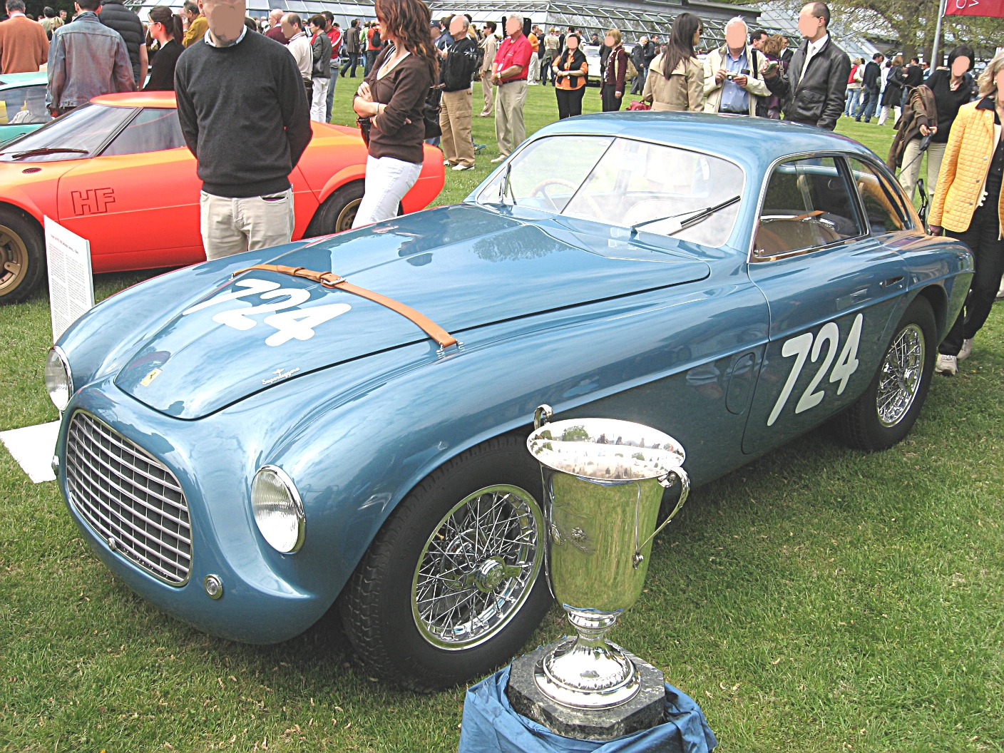 Subject:Ferrari 166 MM Berlinetta Touring Date:April 27th, 2008 Event:Concorso d’Eleganza”Villa d’Este” 2008 Place/Country: Cernobbio (CO), Italy I release all rights in the public domain.